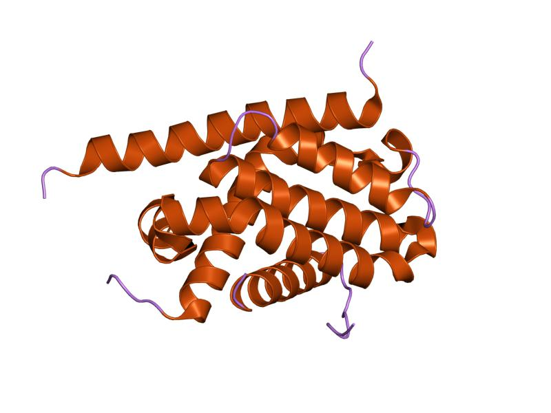 Cartoon representation of the molecular structure of protein registered with 1pq1 code.